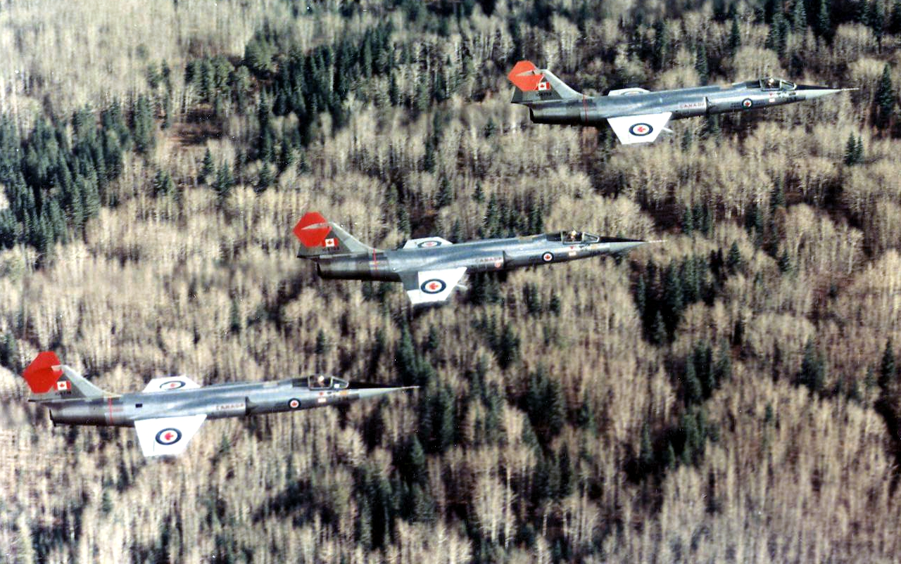 Three Canadair CF-104 Starfighter from 417 Squadron of the Royal Canadian Air Force are in flight at Cold Lake, Alberta (Canada).